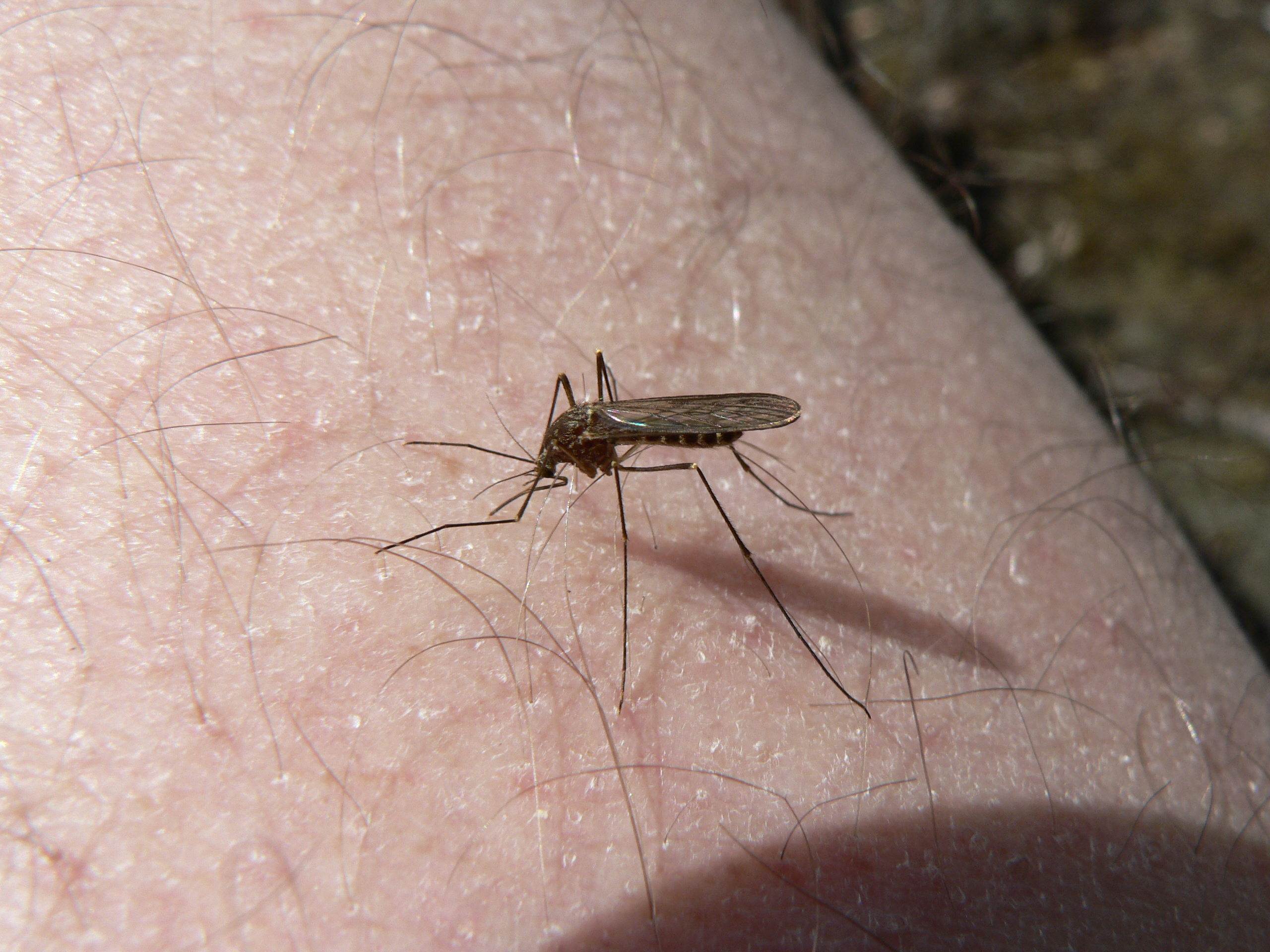 Mosquito